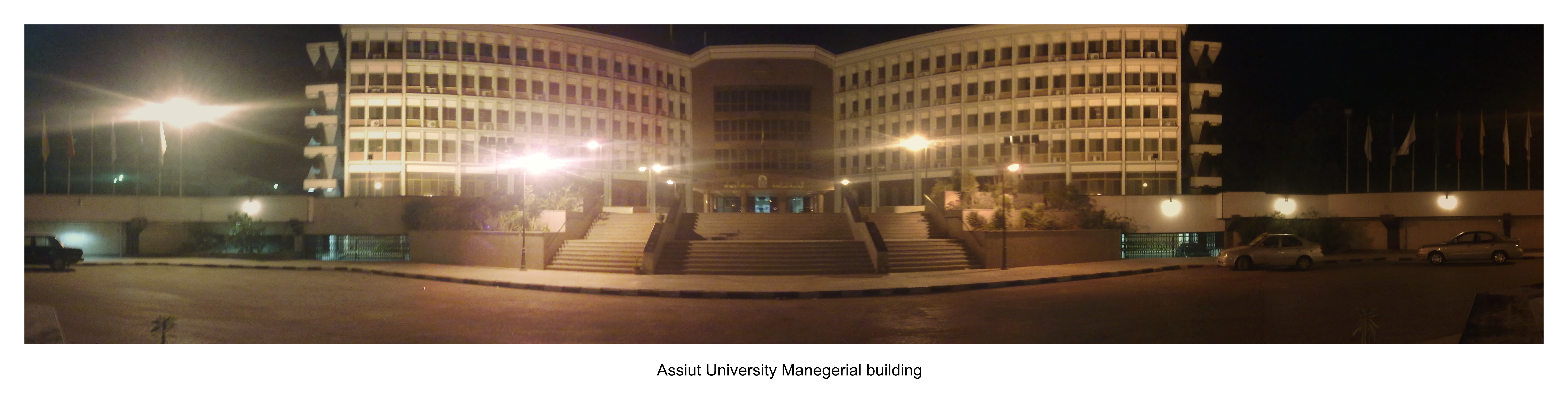 Assiut University managerial building panorama at night